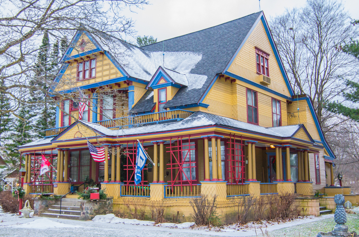 Frank A. and Rae E. Harris Kramer House